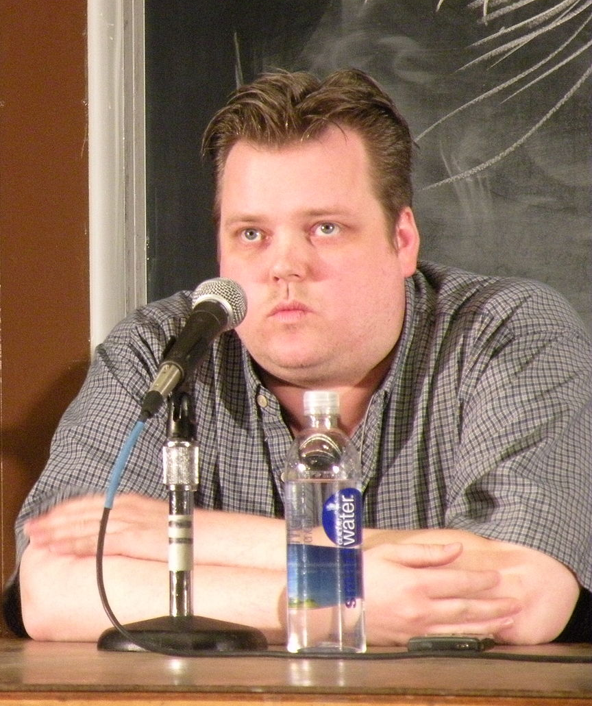 Matt Sloan